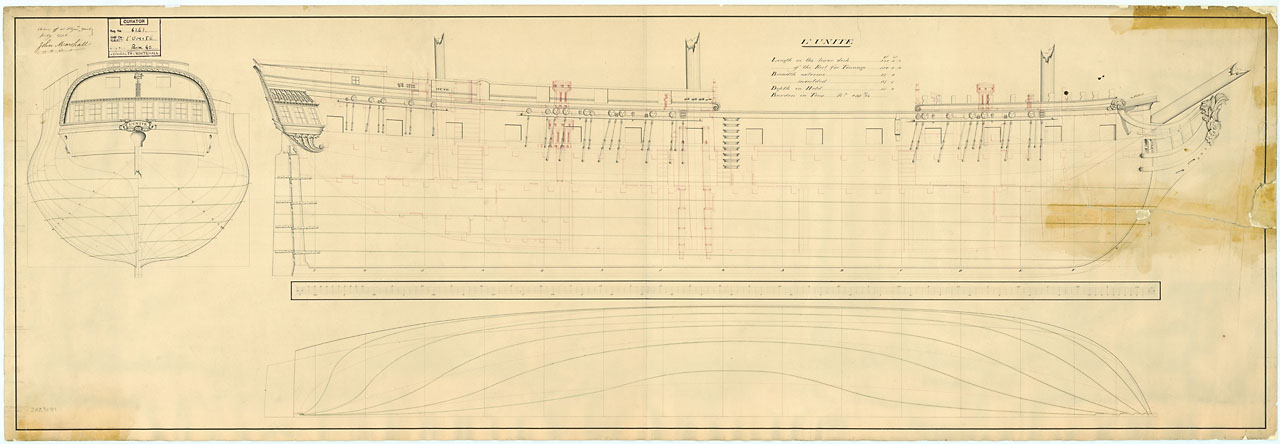 Unite (1796) Scale 1:48. Plan showing the body plan with sternboard decoration and name in a cartouche or stern counter, sheer lines with inboard figurehead detail and longitudinal half breadth for for Unite (1796) a captured French Frigate fitted at Plymouth Dockyard prior to fitting as a 32-gun, Fifth Rate Frigate. Signed J. Marshall. (Master Shipwright) UNITE FL.1796 [FRENCH]